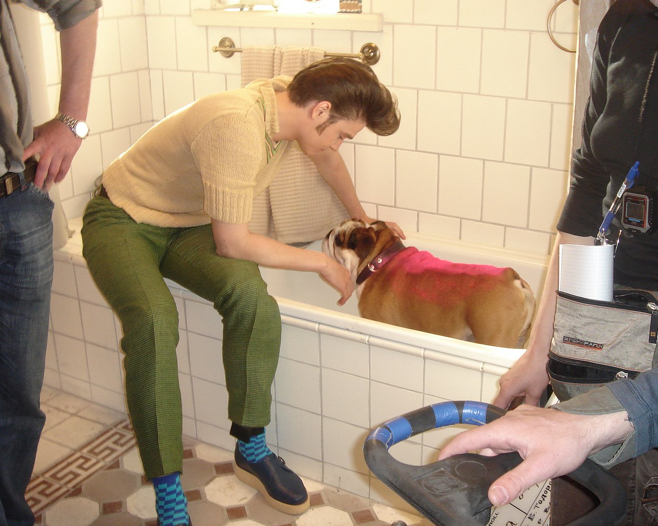 Maxim Matveev with English Bulldog Filya (production of "Stilyagi")